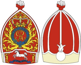 Fabrice Infantry Mitre Cap